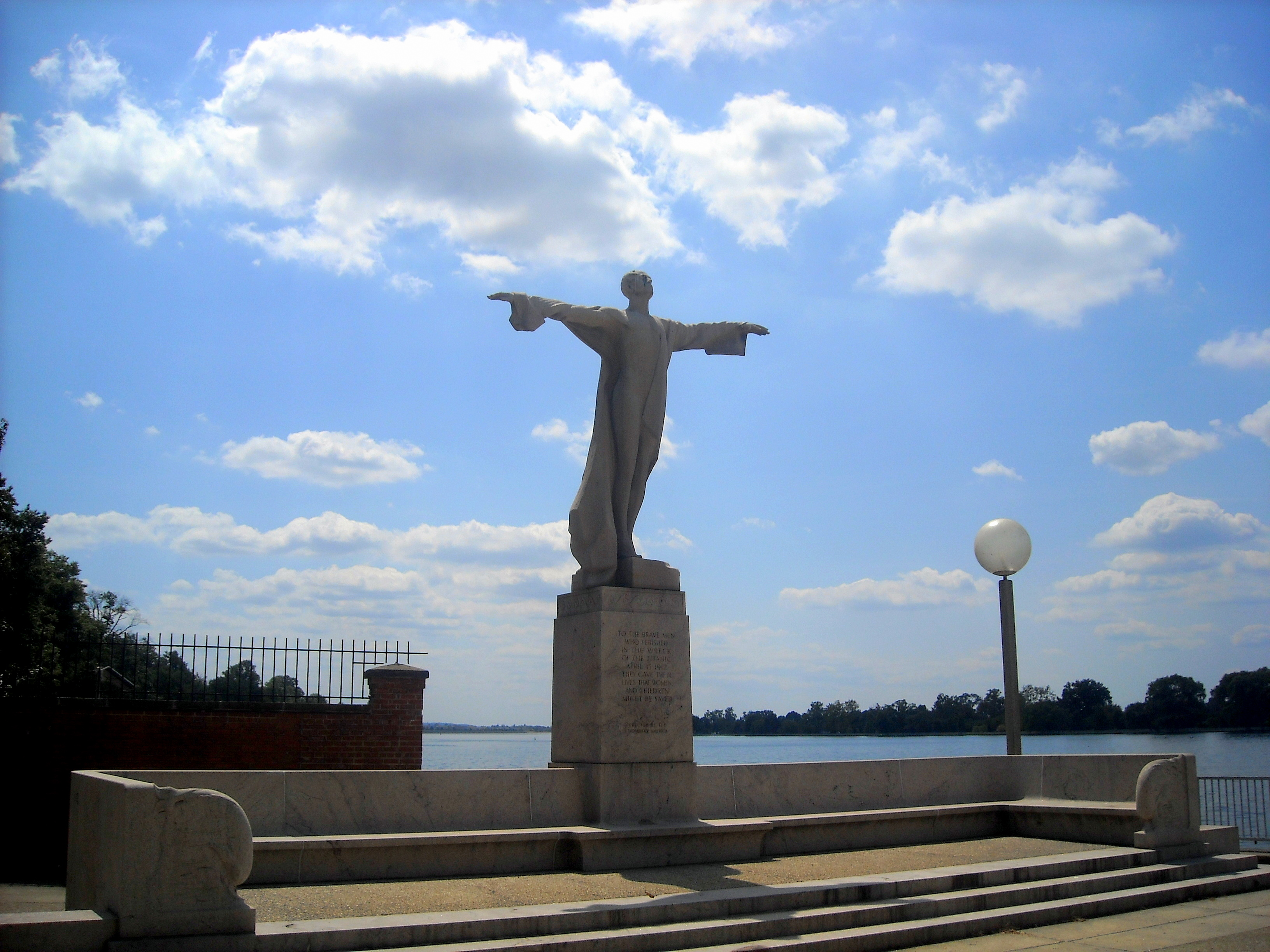 The Titanic Memorial located on the Southwest Waterfront in Washington, D.C. The memorial is listed on the National Register of Historic Places.